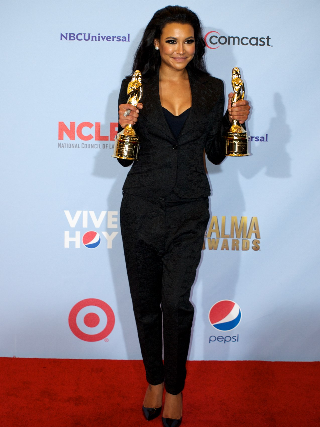 Alma Awards 2012